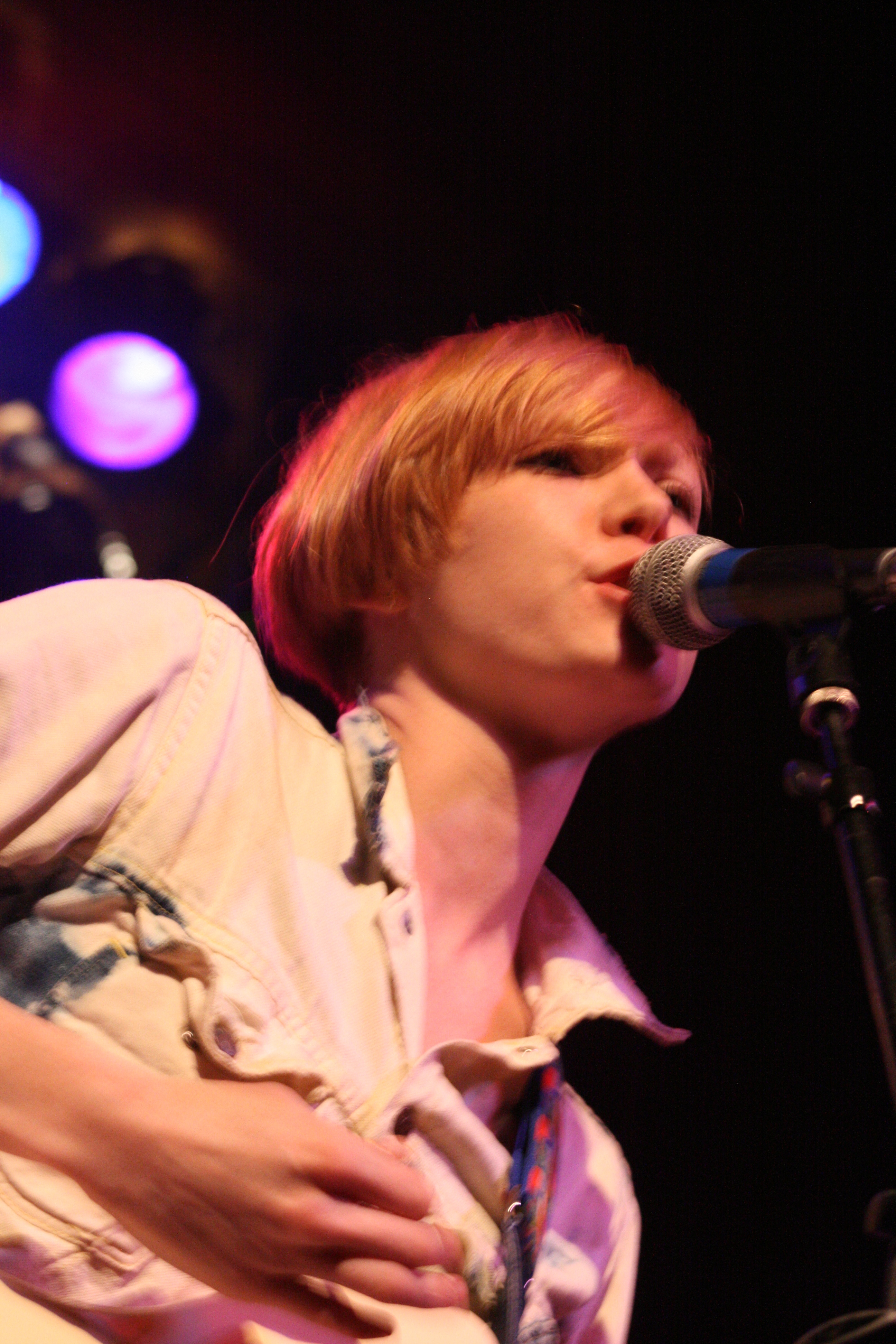 Singer Lissy Trullie performing at the Bluebird Theater in Denver, Colorado, USA on May 11, 2009.